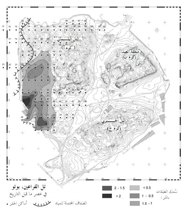 Buto Location and expansion of the settlement in the first half of the 4th millennium B.C, Desouk - Egypt